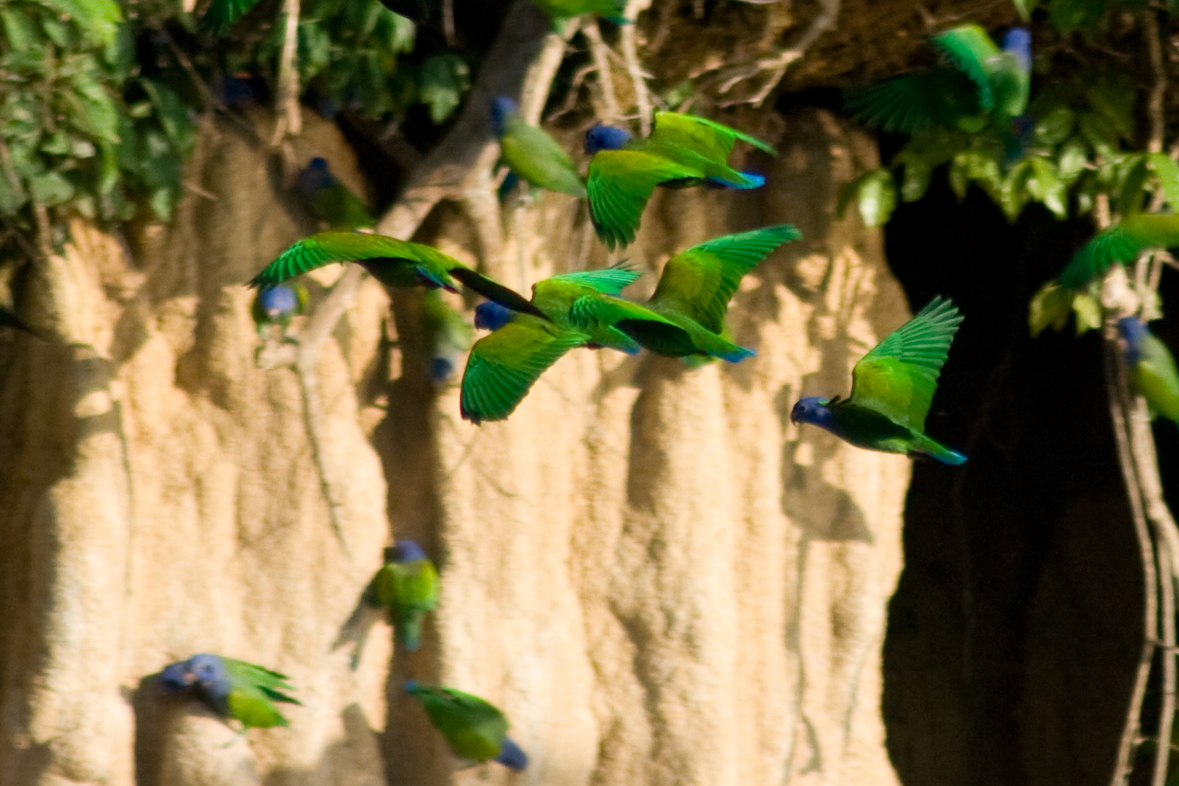 Blue-headed Parrots (also known as the Blue-headed Pionus) around a clay lick in Peru. Some of the parrots are flying and others are collecting clay.